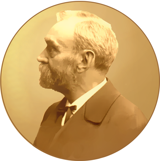 Alfred Nobel from public domain photo, in circle. (Photo taken 1896 or earlier).